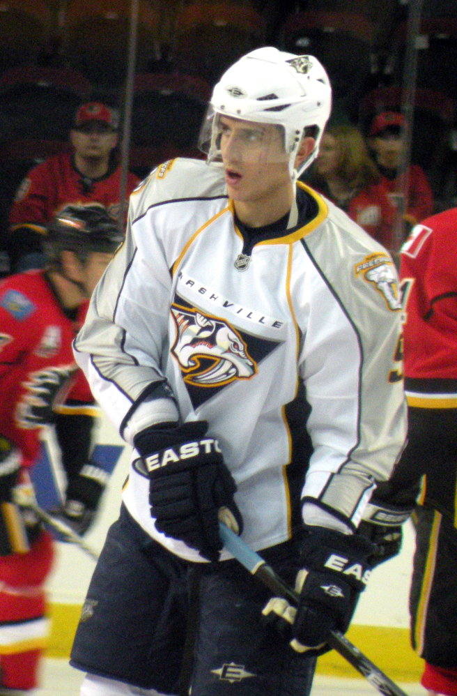 Nashville Predators forward Marcel Goc prior to a National Hockey League game against the Calgary Flames.